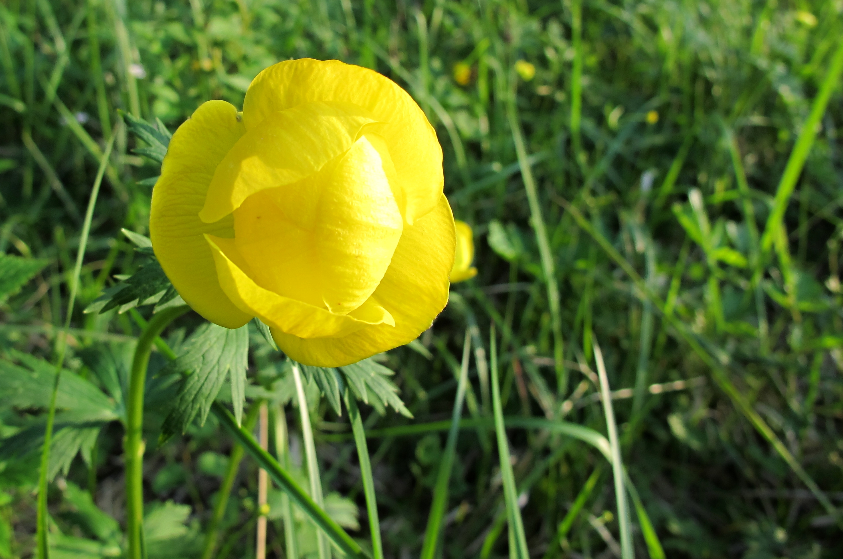 Trollius europaeus in nature reserve Andělské schody, near Voznice in Příbram District